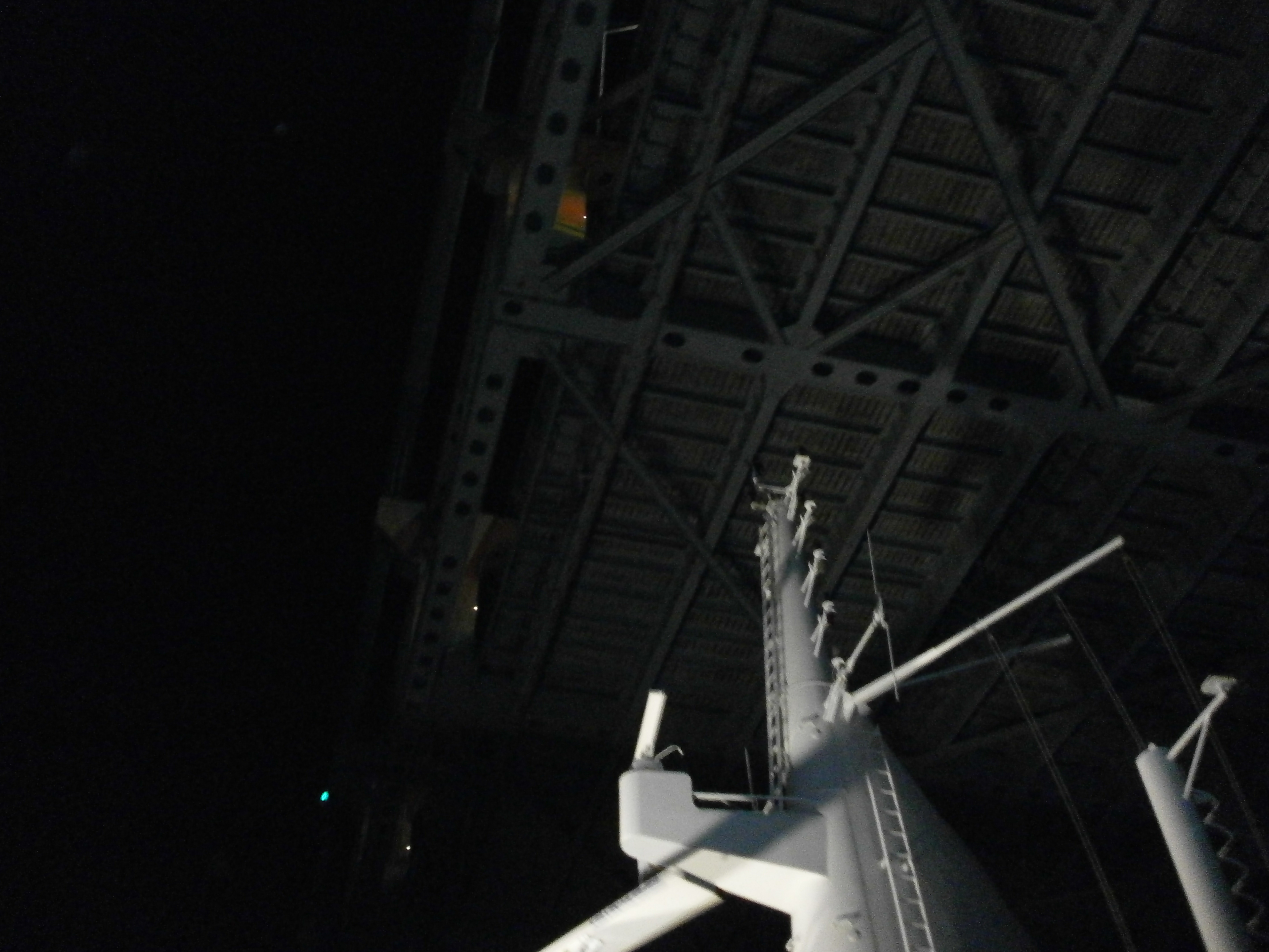 RMS Queen Mary 2 RADAR mast passing under the Verrazano-Narrows Bridge.